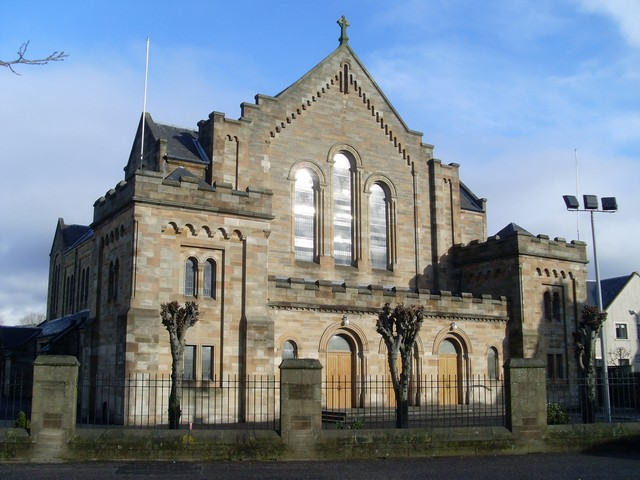 Saint Mirin's Cathedral Catholic cathedral in Paisley, named after the patron saint of the town, who founded the religious community that would grow to become Paisley Abbey.